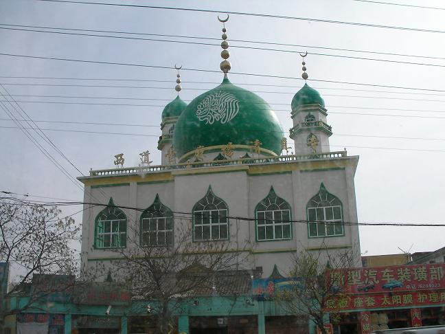 Xidaotang Machang Mosque, in Linxia City's City Ring Road West (Huancheng Xi Lu)